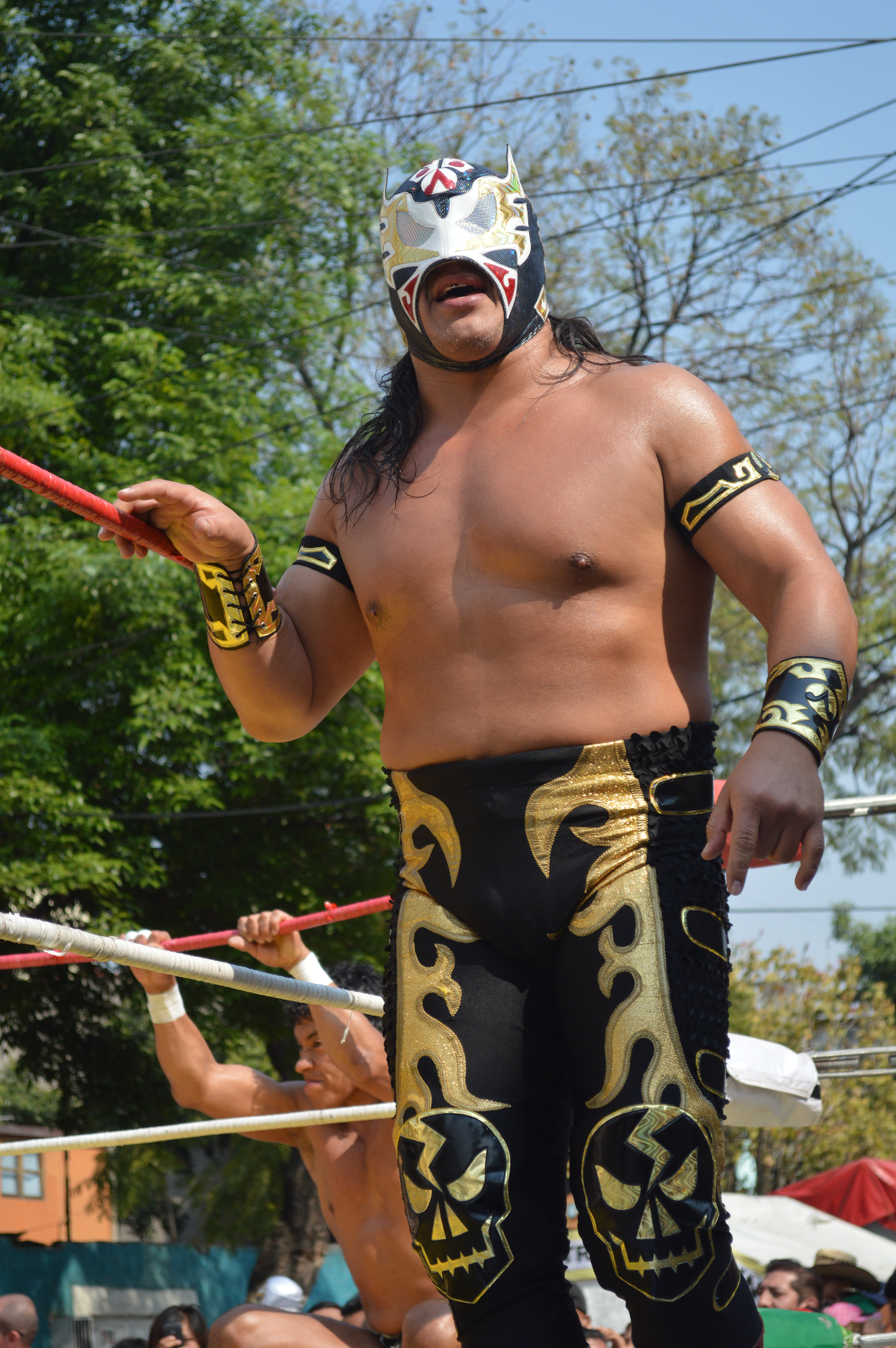 Ultimo Guerrero at CMLL lucha libre event part of Festival Día de Reyes Territorial Obrera Doctores in Mexico City